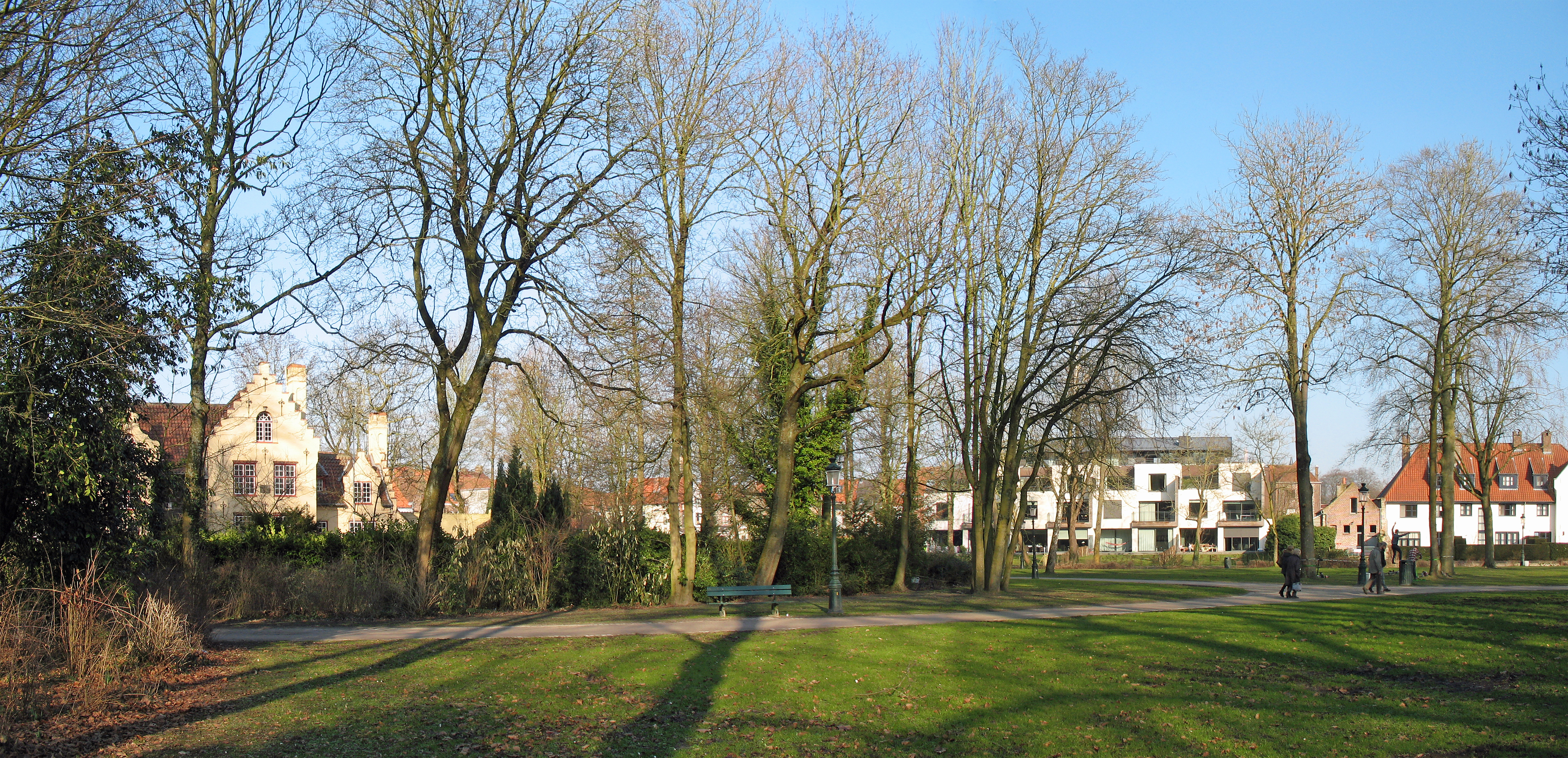 Bruges (Belgium): the Minnewaterpark